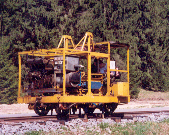 Reconstruction of track CHZ.